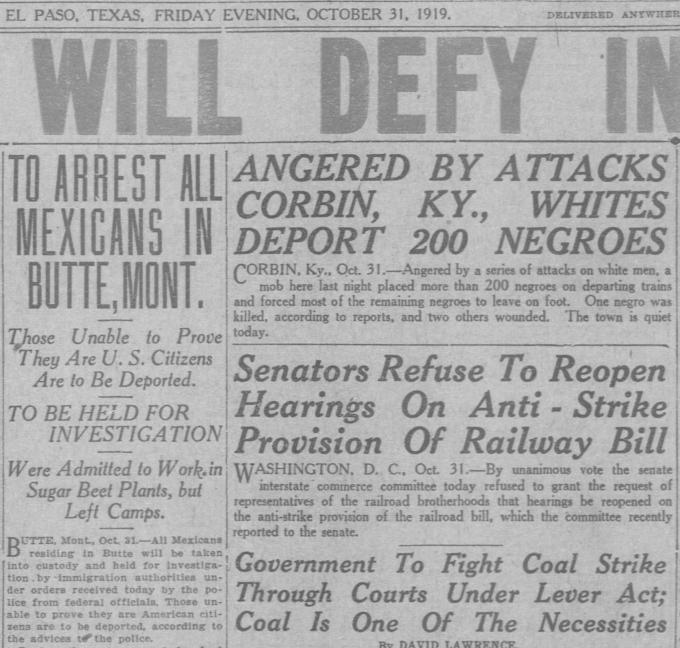 Angered by attacks Cobrin KY whites deport 200 Negroes